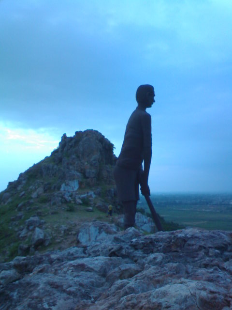 Giant statue of Maj. Dhyanchand placed at a hill top in the Sipri area, Jhansi, Uttar Pradesh, India. The statue is visible from every roof top in the city of Jhansi; its size may be guessed at by seeing a man standing in the background